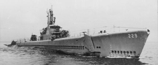 USS_Flying_Fish; Flying Fish (SS-229), underway, date and place unknown. US Navy photo courtesy of Hyperwar US Navy in WWII